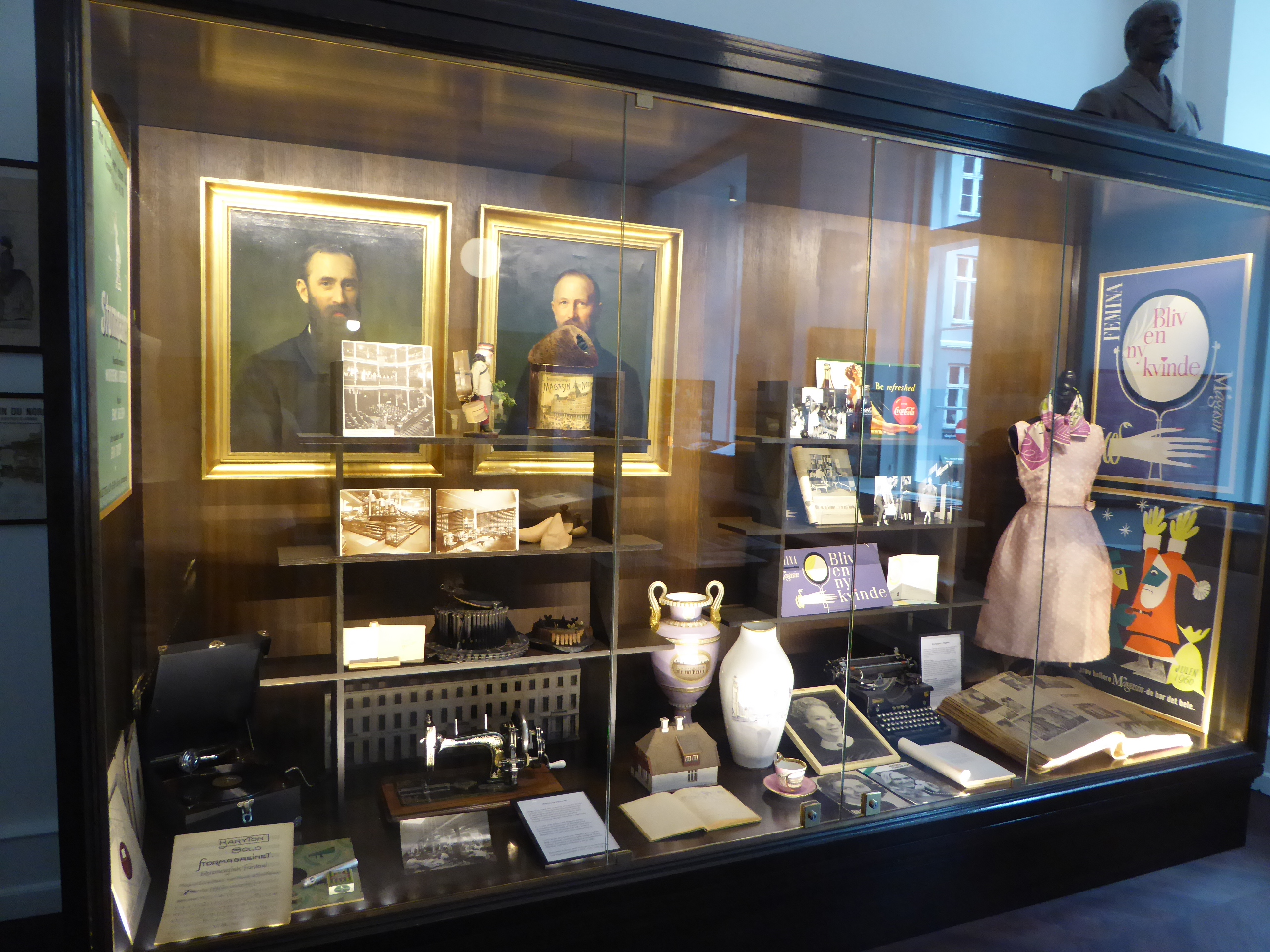 Various stuffs from the department store Magasin du Nord in Magasin du Nord Museum in Copenhagen.